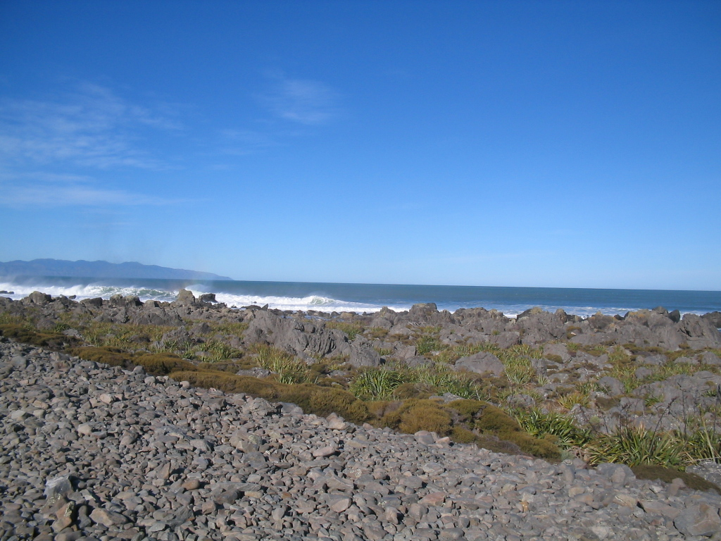 Shows raised beach landscape